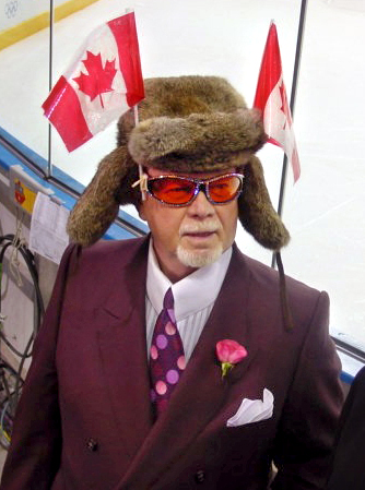 Salt Lake City 2002 Winter Olympics Flashback series featuring adventures of Dave Thorvald and Dan Funboy.